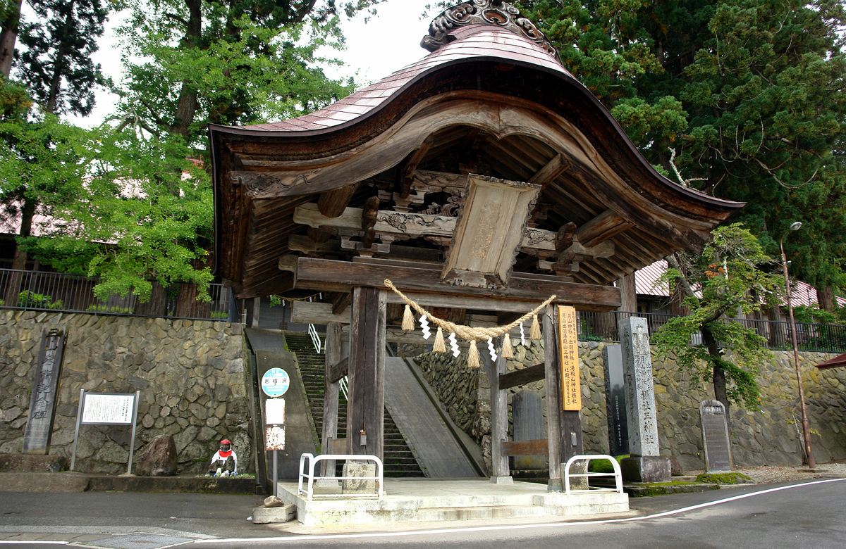 Iwanesawasanzan jinja Gate